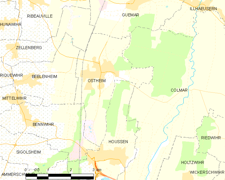 Map of French municipality